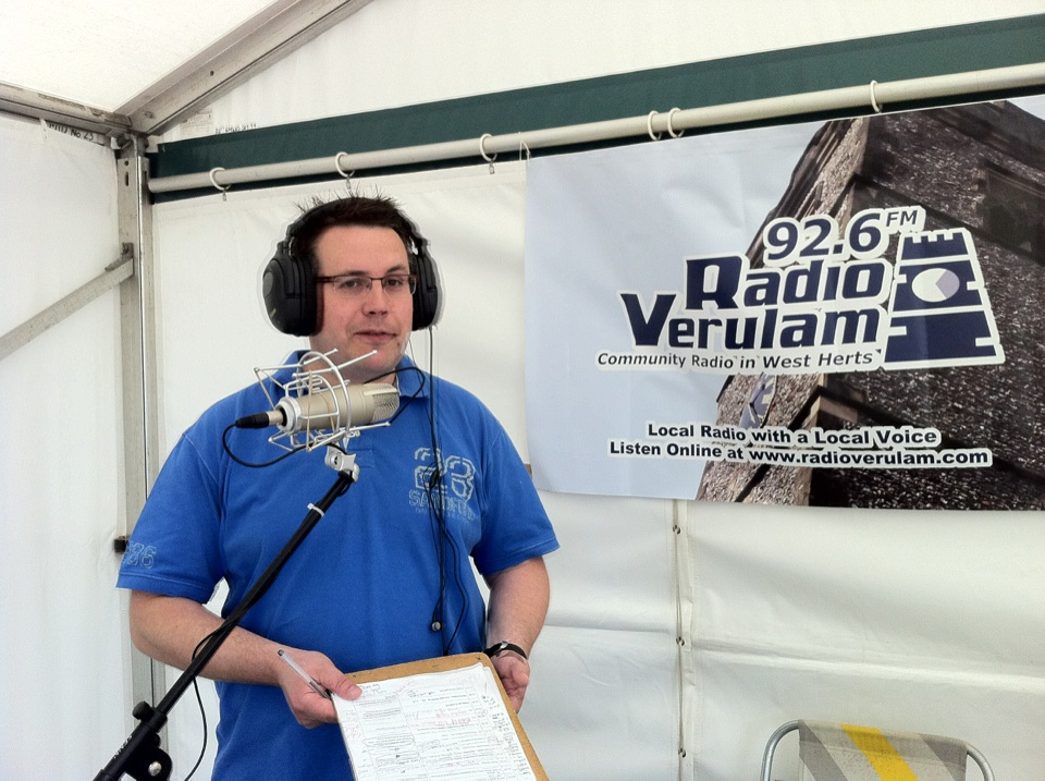 Jonny Seabrook Presenting at the Herts County Show 2011